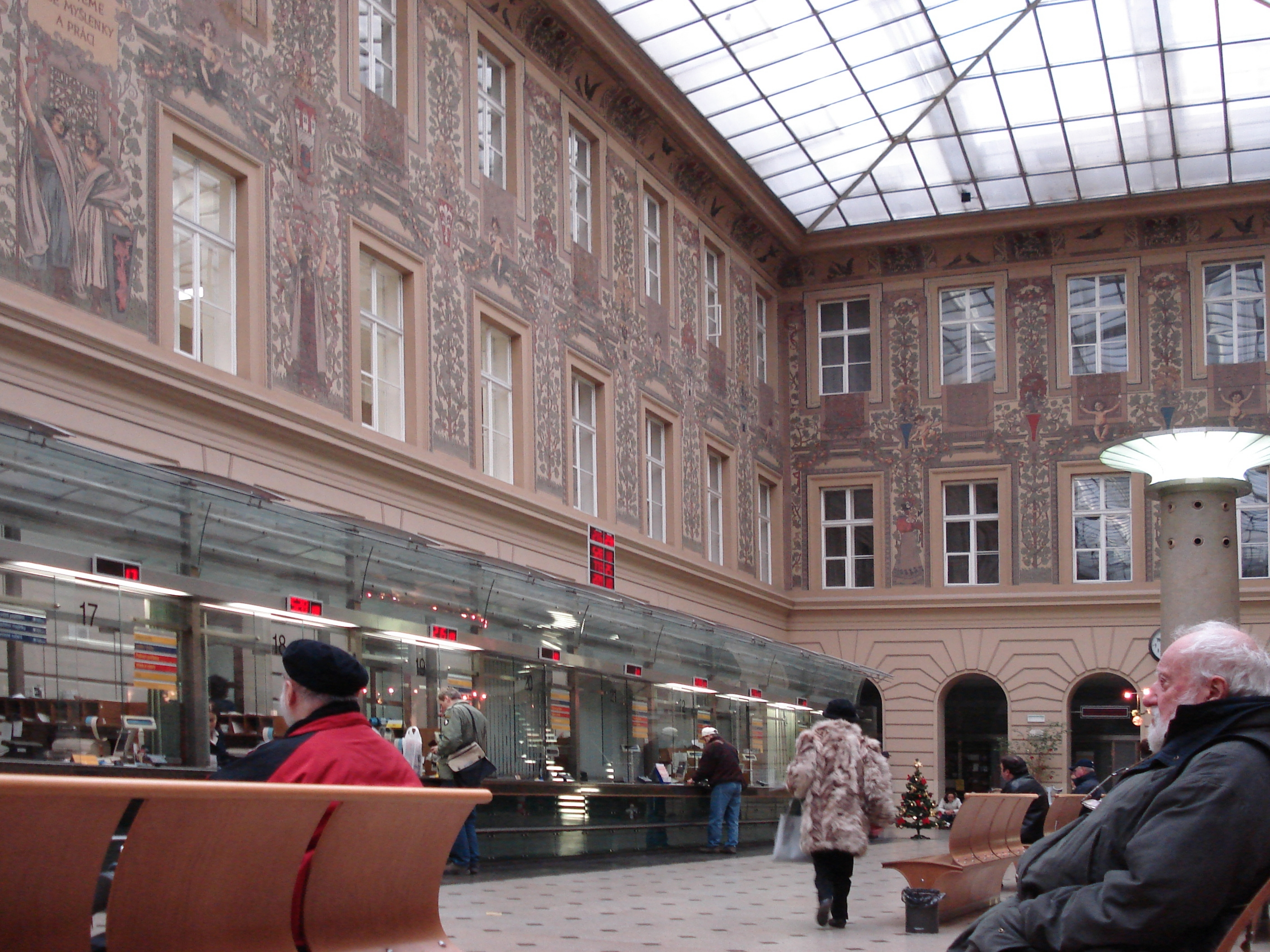 Hall of Prague's main post office. Jindrisska street.